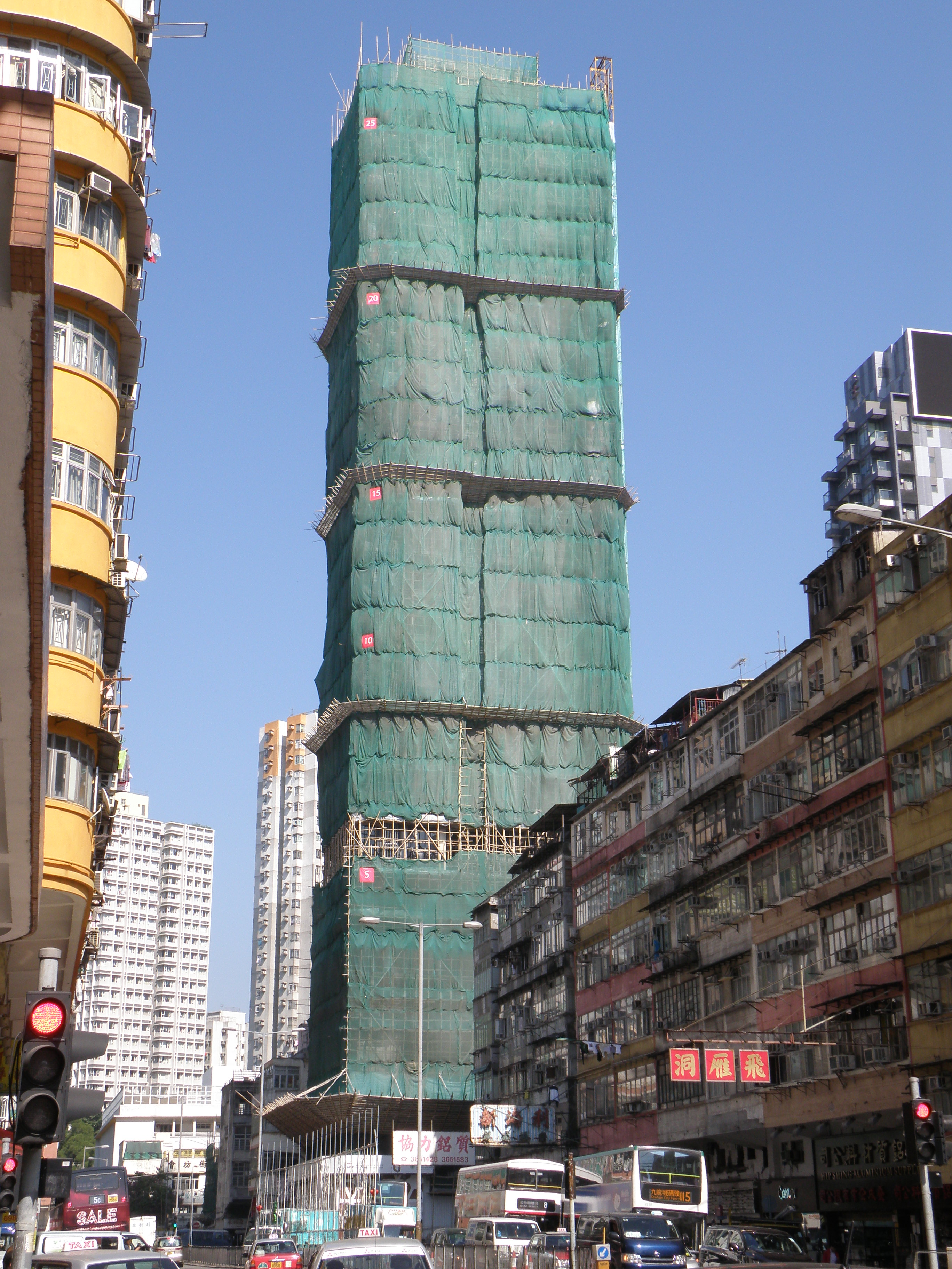 Metro 6 in Hung Hom, Hong Kong.